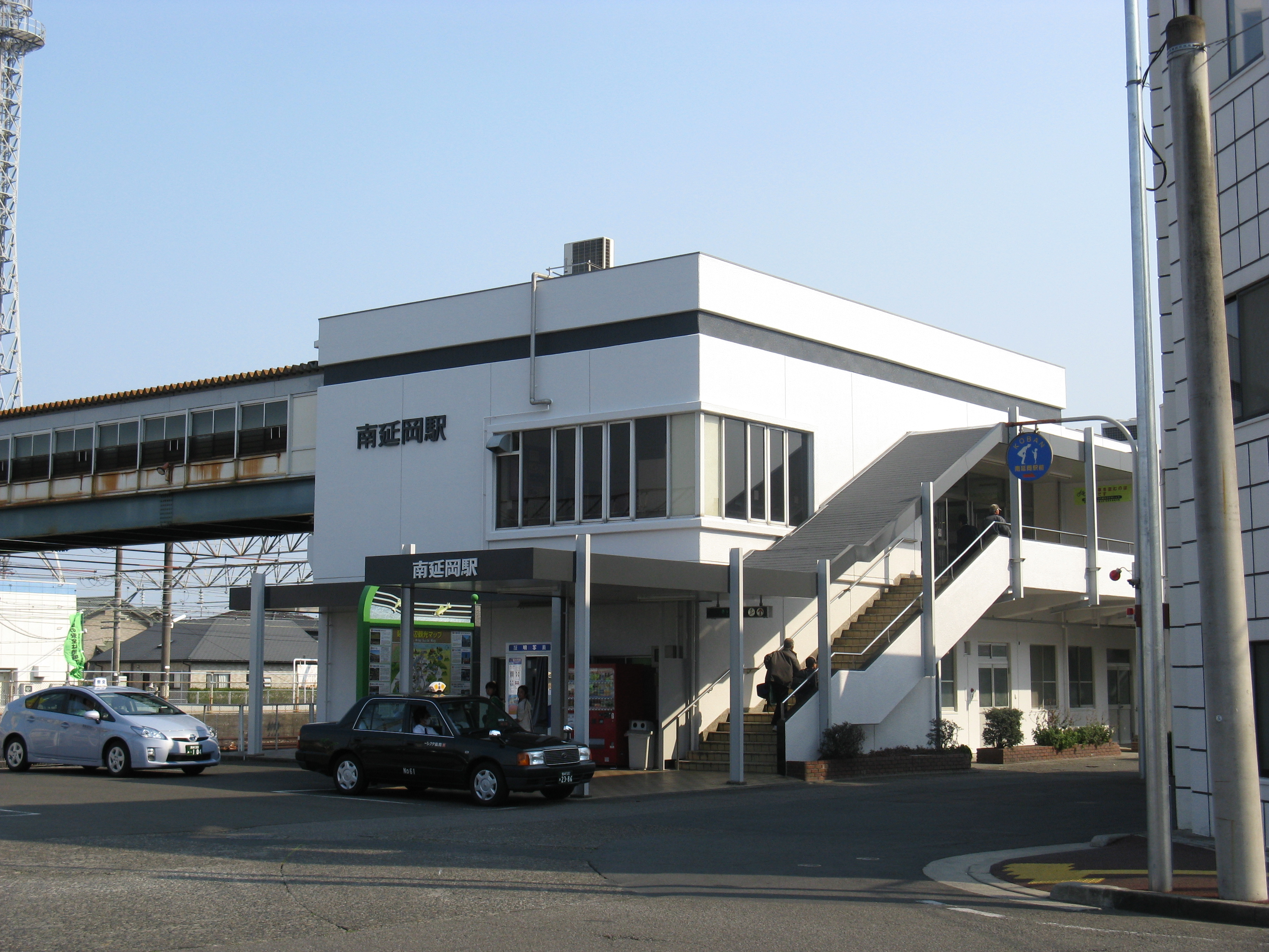 Minami_Nobeoka_Station_2011_4_1